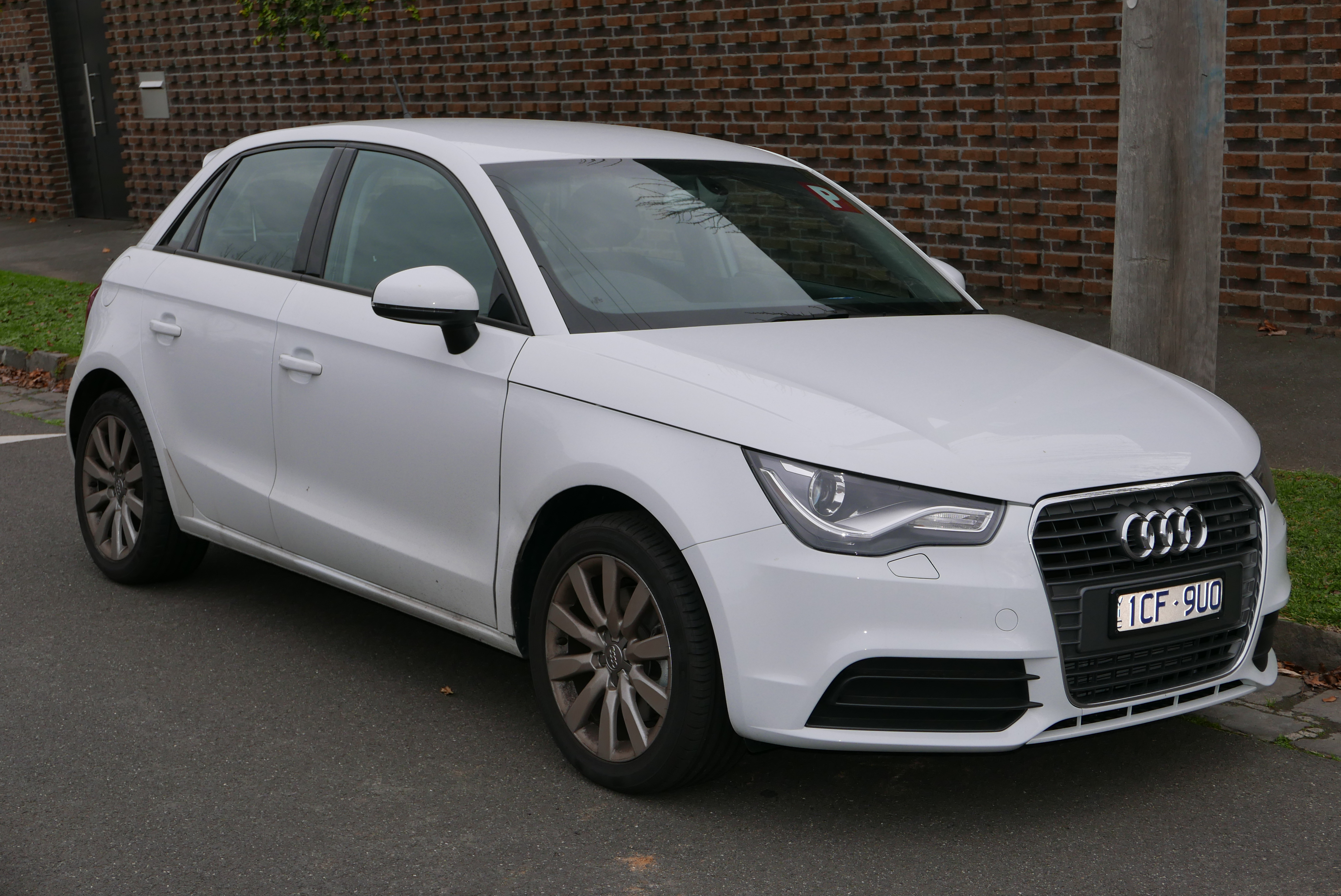 2014 Audi A1 (8X MY14) 1.4 TFSI Attraction Sportback 5-door hatchback. Photographed in Kew, Victoria, Australia. Vehicle registration enquiry results Jurisdiction Victoria Registration 1CF9UO Chassis code WAUZZZ8X1EB155989 Engine code CAXF30098 Compliance date 2014-12 Year of manufacture 2014